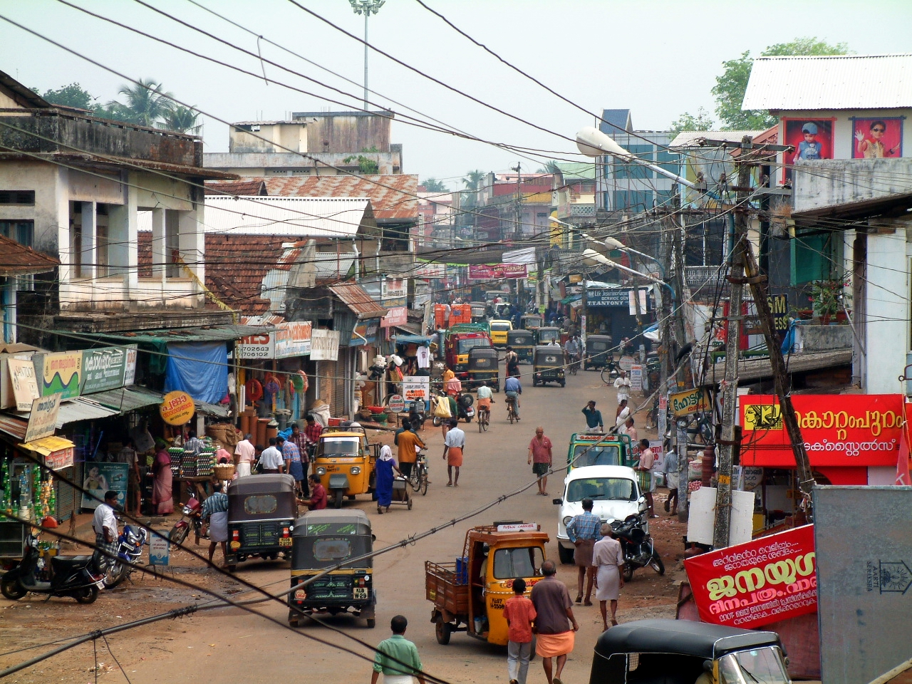 Chalakudy market